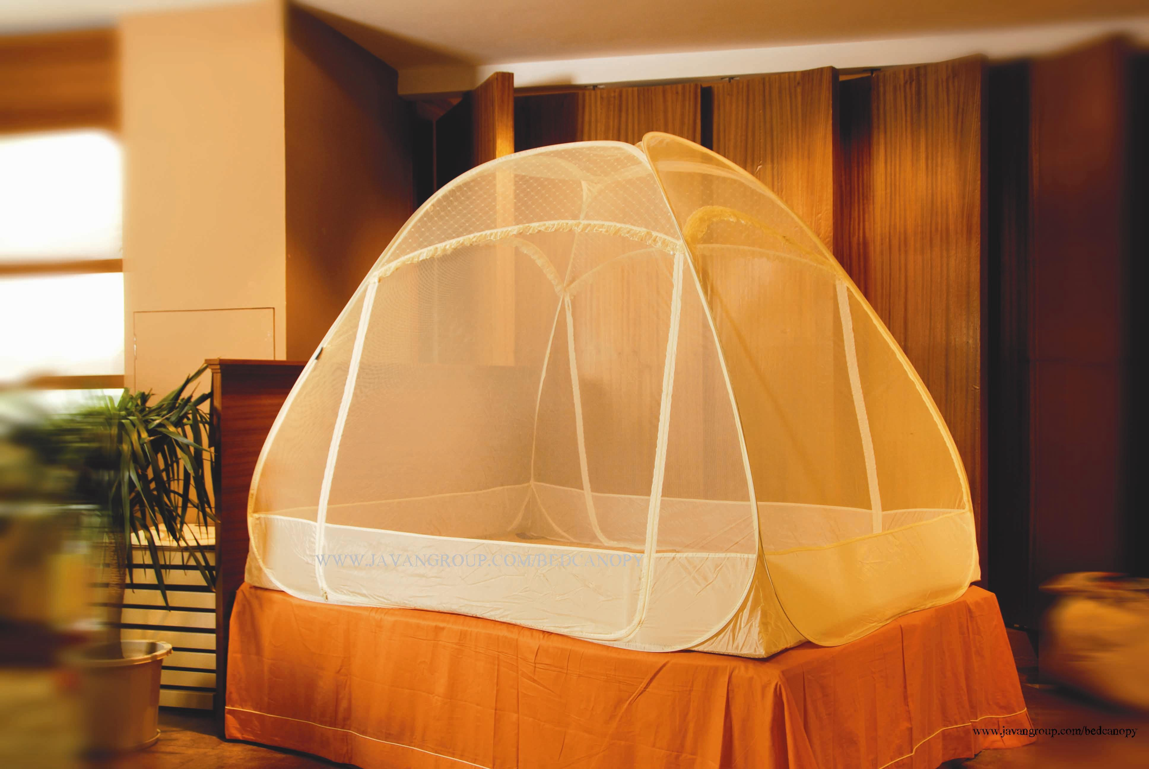 self propping mosquito net